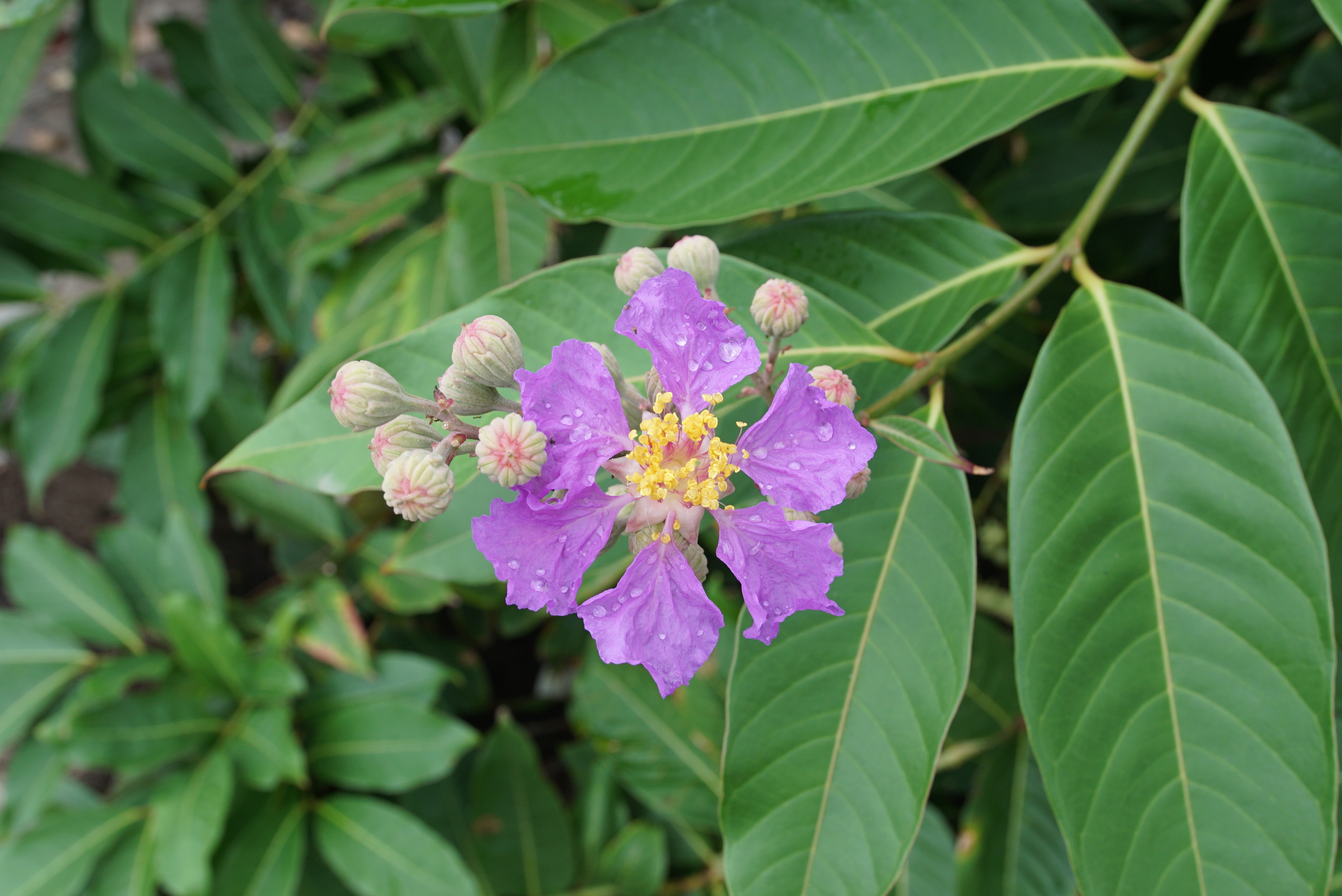 Lagerstroemia speciosa